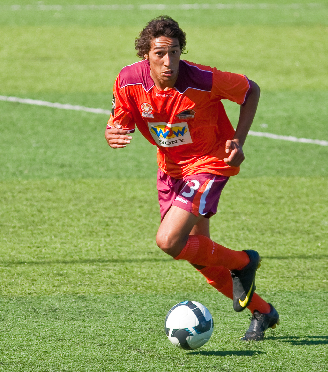 Adam Sarota playing for the Brisbane Roar Youth team.